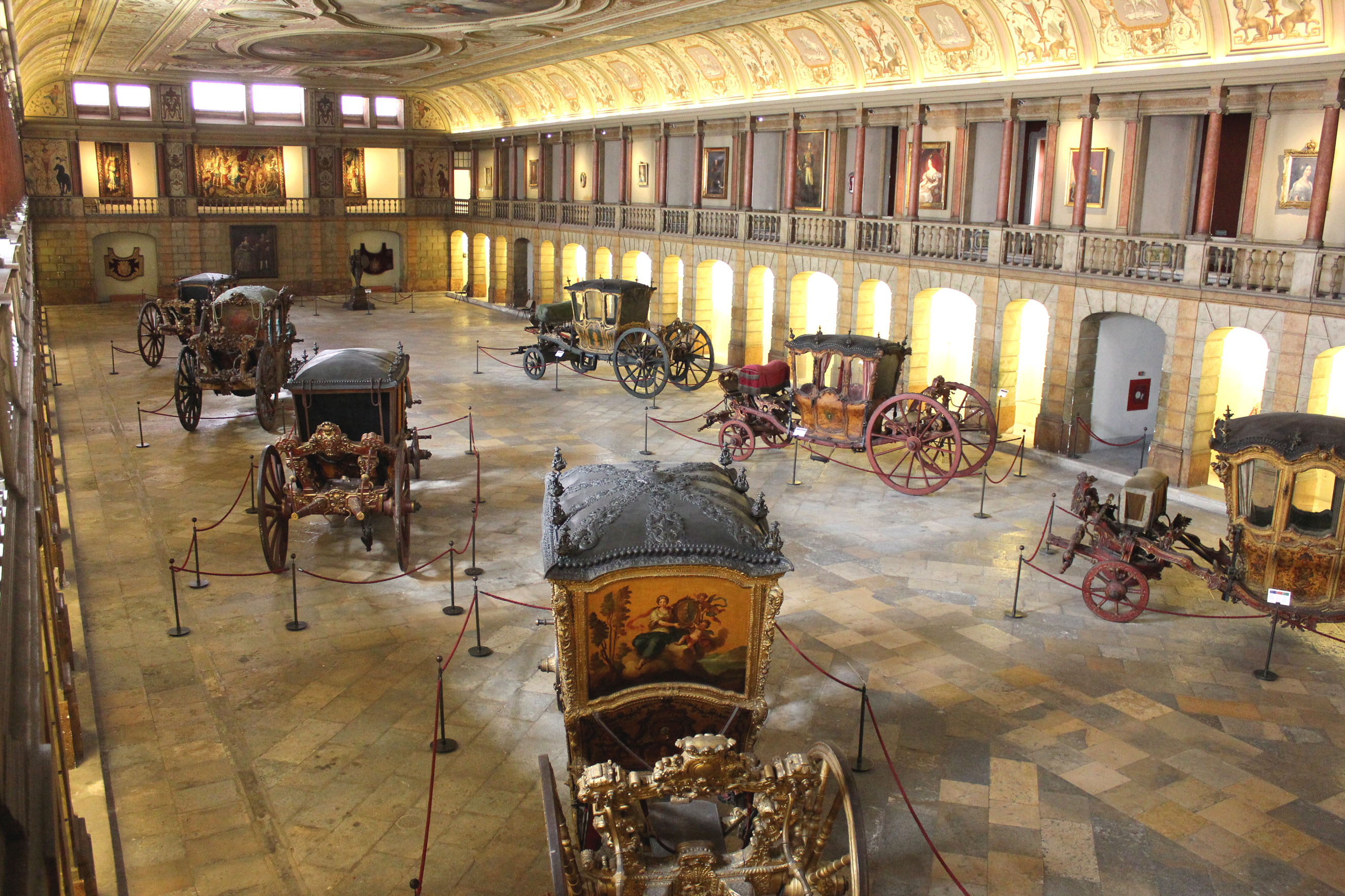 The National Coach Museum - royal horse riding arena